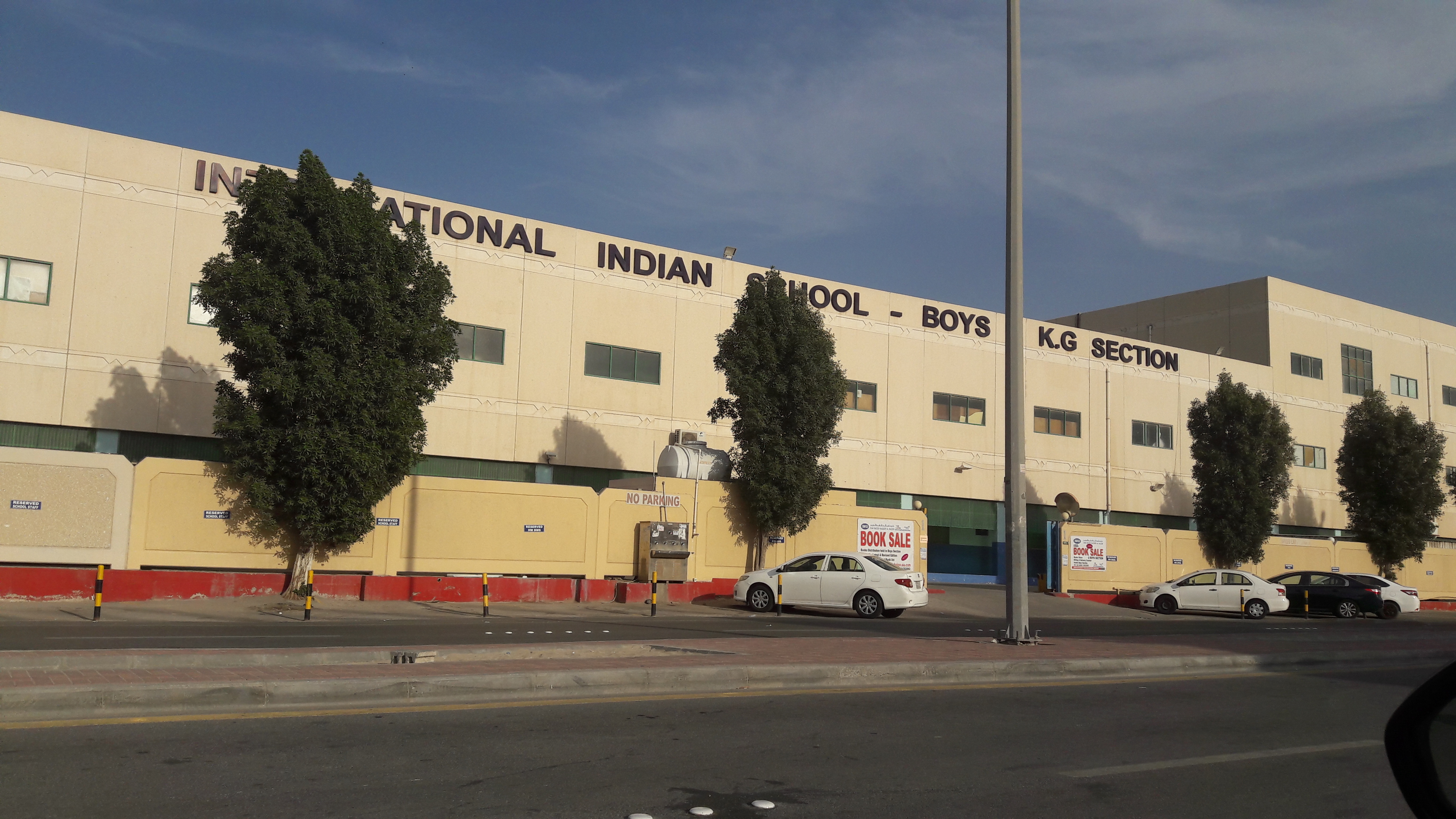 Front view of Boys and KG section of International Indian School, Dammam